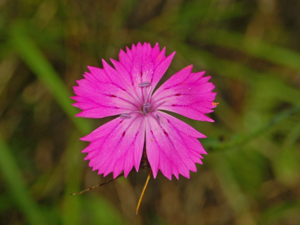 Dianthus balbisii - Gattorna, Genova, Italy